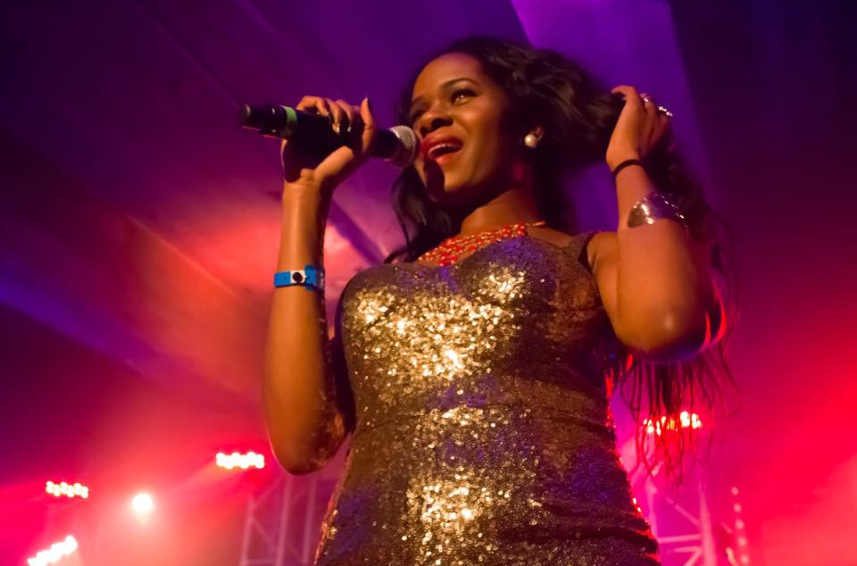 Princess Vitarah Performing Pop Montreal Festival In 2016